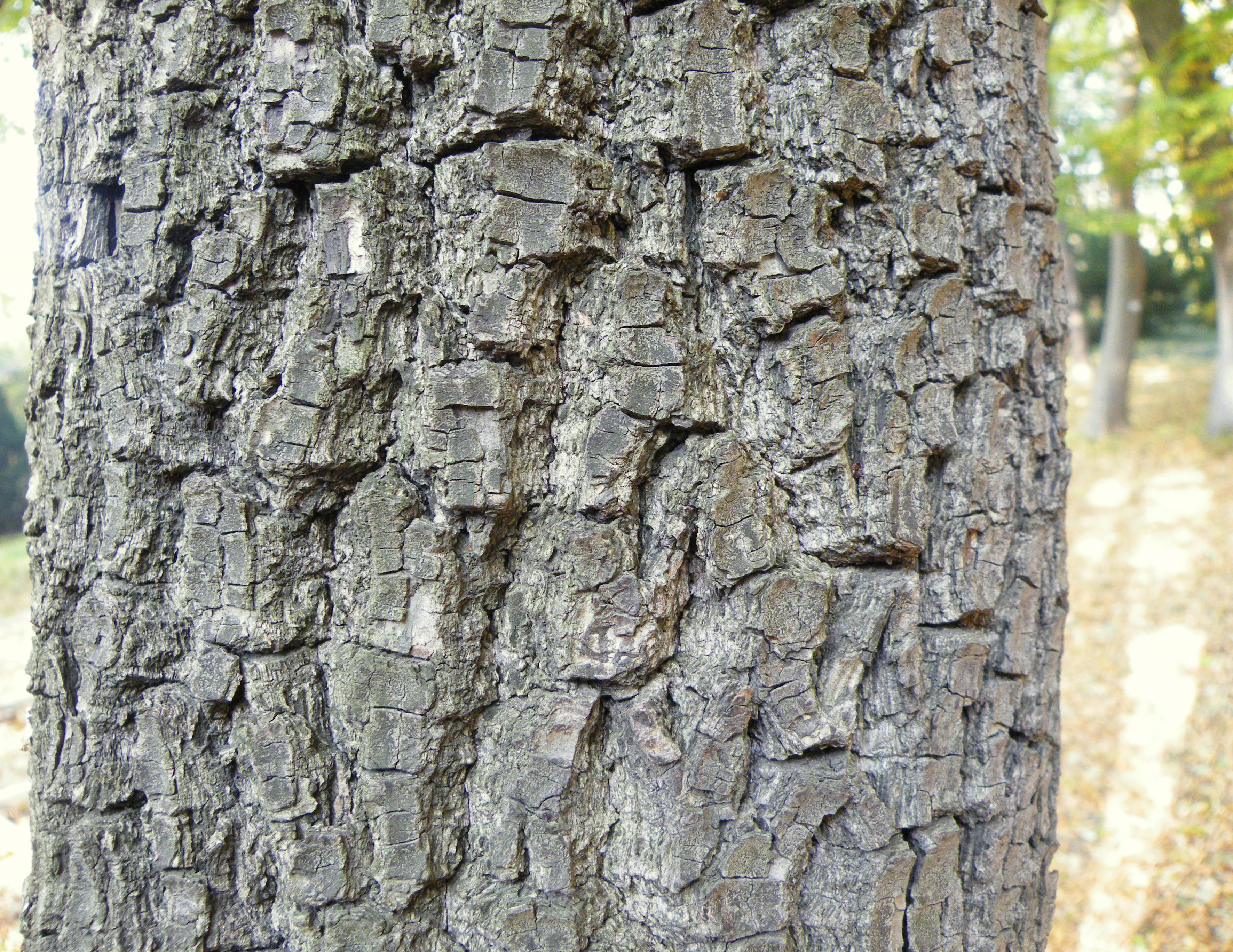 Diospyros virginiana grows through 20 m (66 ft), in well-drained soil. In summer, this species produces fragrant flowers which are dioecious, so one must have both male and female plants to obtain fruit. Most cultivars are parthenocarpic (setting seedless fruit without pollination). The flowers are pollinated by insects and wind. Fruiting typically begins when the tree is about 6 years old. This media file is produced by Wikipedian in Residence in Botanical Garden Jevremovac in 2015.